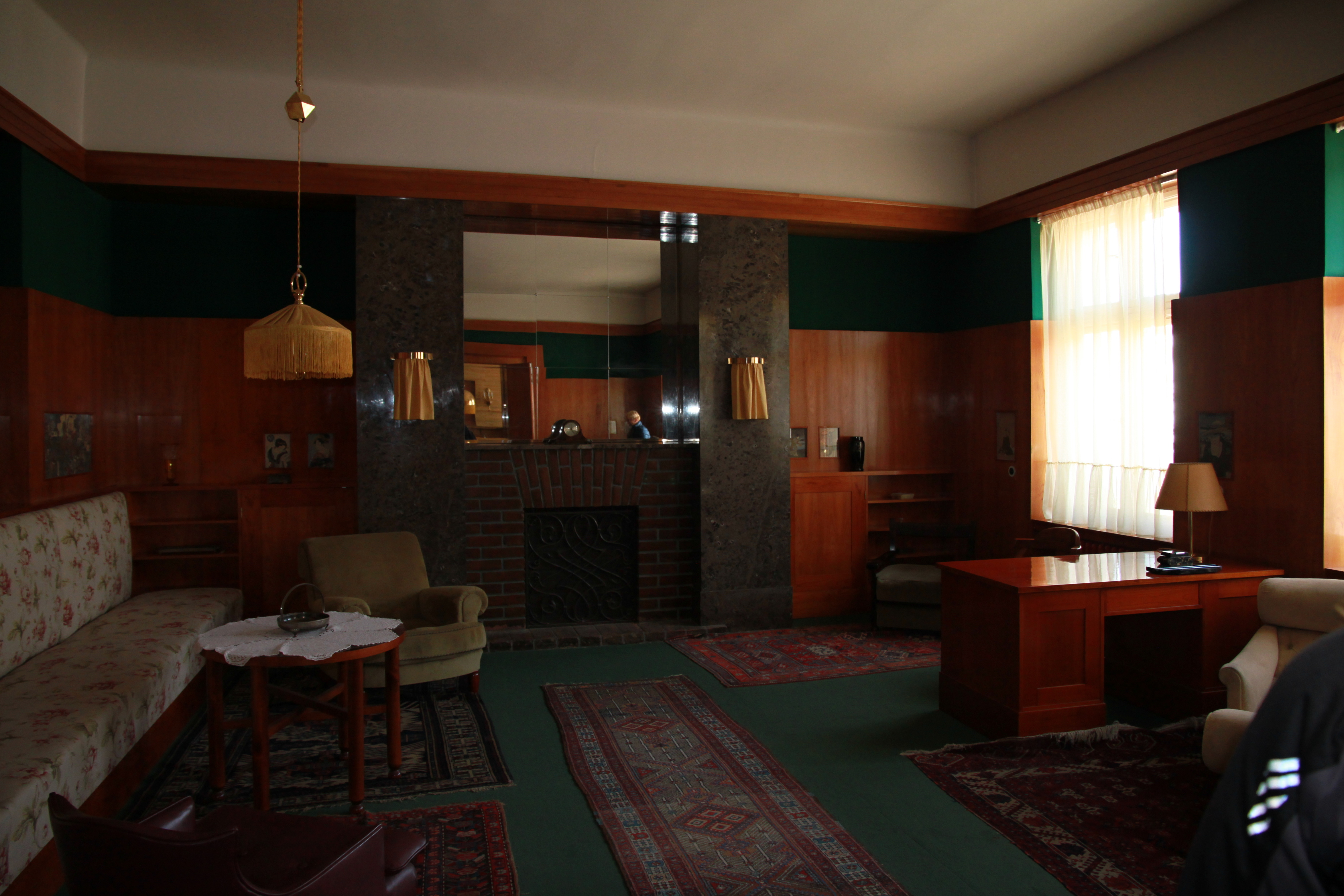 The Vogl family apartment, designed by Adolf Loos. Klatovská Street no. 455/12, Pilsen, Czechia.